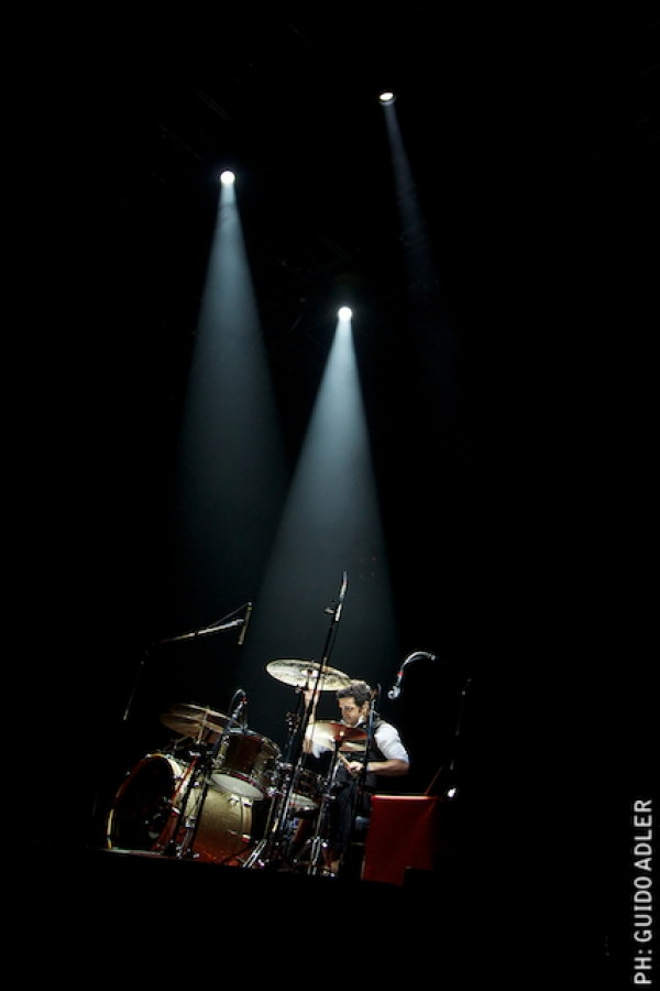 Diego L